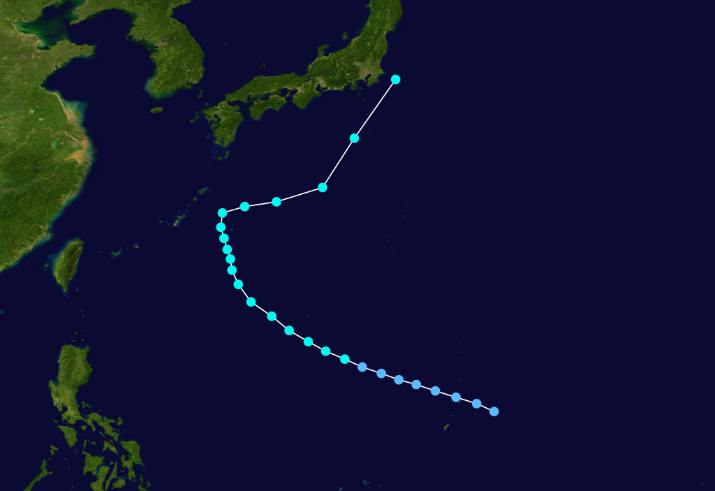 Tropical Storm Luke 1991 track. Uses the color scheme from the Saffir-Simpson Hurricane Scale.